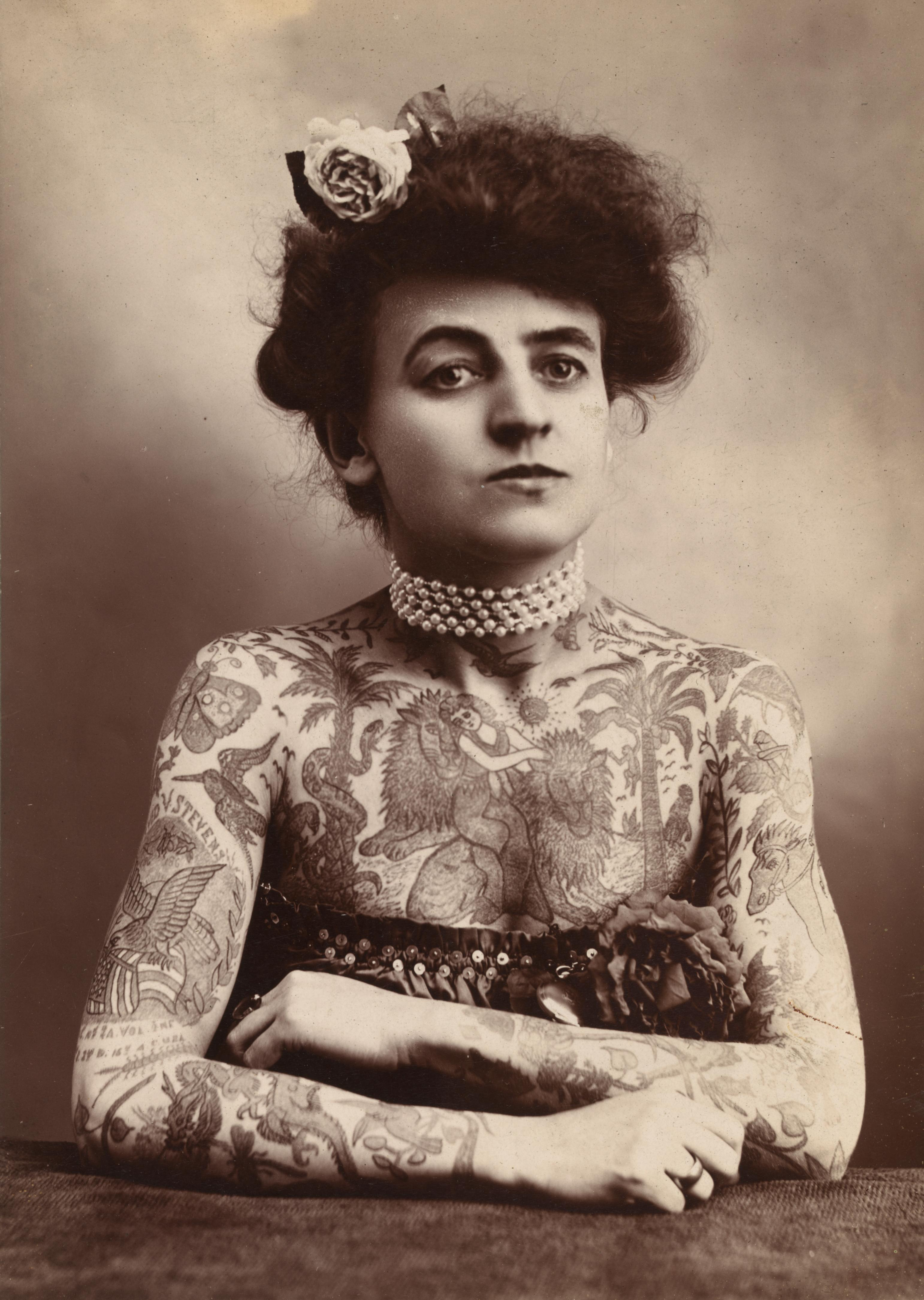 Mrs. M. Stevens Wagner, half lgth., facing slightly right, arms and chest covered with tattoos